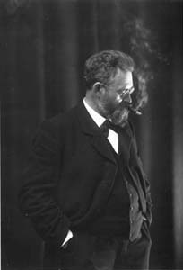 Daniel Nyblin